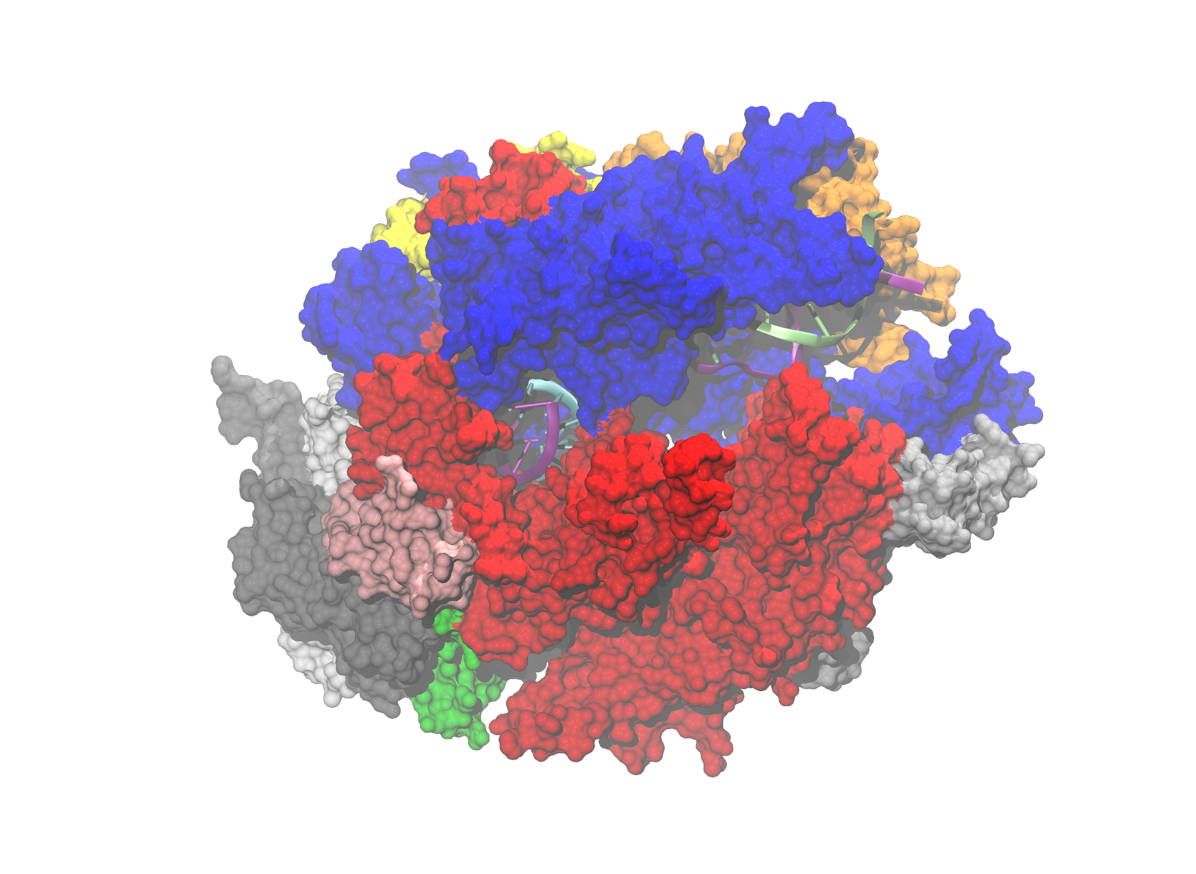 Surface model of RNA polymerase II from yeast, chains colored uniquely, with RNA (left) and DNA(left+right) as cartoon, after PDB 3G1G. Ref.: D.Wang, D.A.Bushnell, X.Huang, K.D.Westover, M.Levitt, R.D.Kornberg: Backtracked RNA polymerase ii complex with 12mer RNA This 3D molecular image was created with VMD